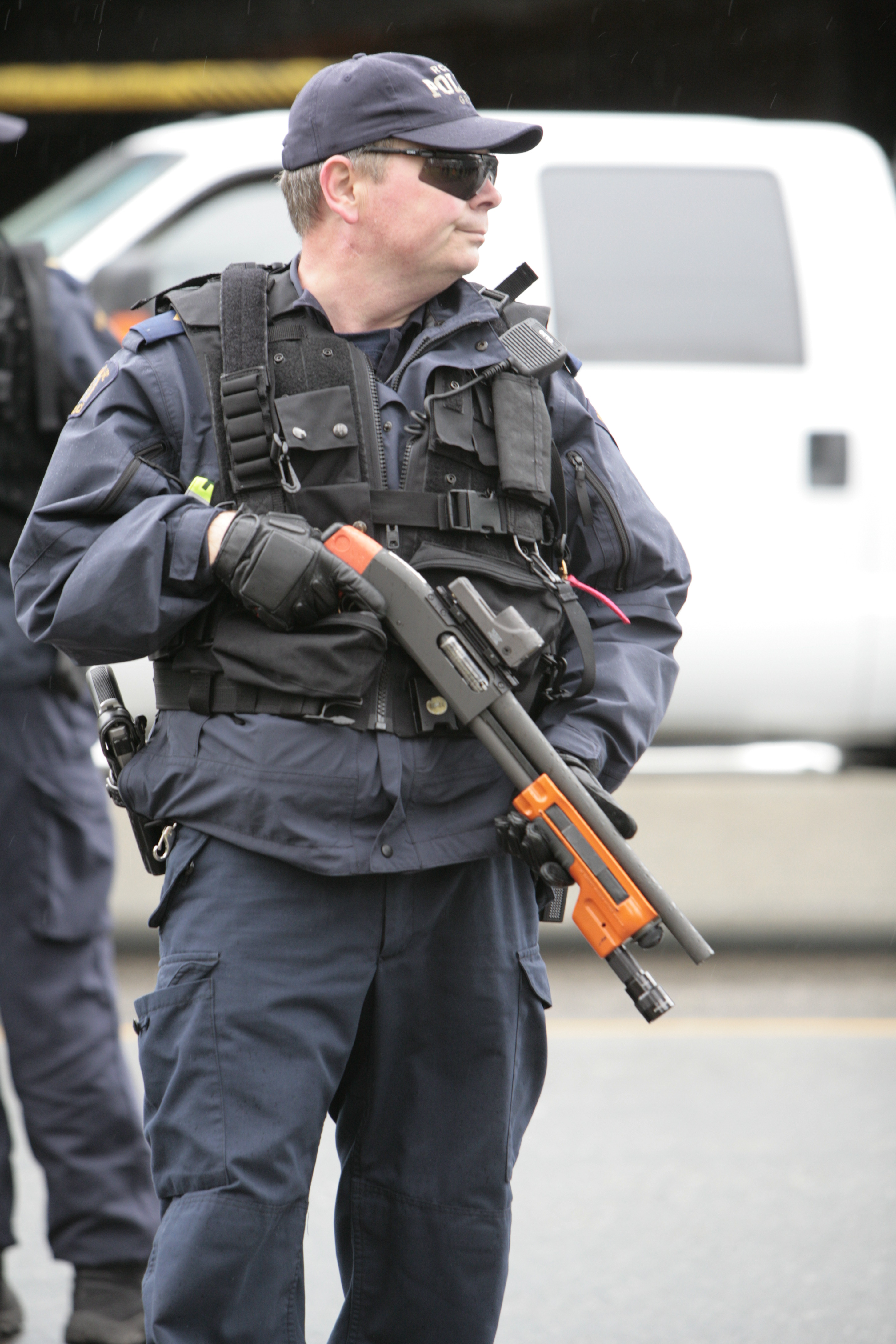 RCMP officer armed with beanbag shotgun during the 2010 Winter Olympics in Vancouver, BC, Canada.